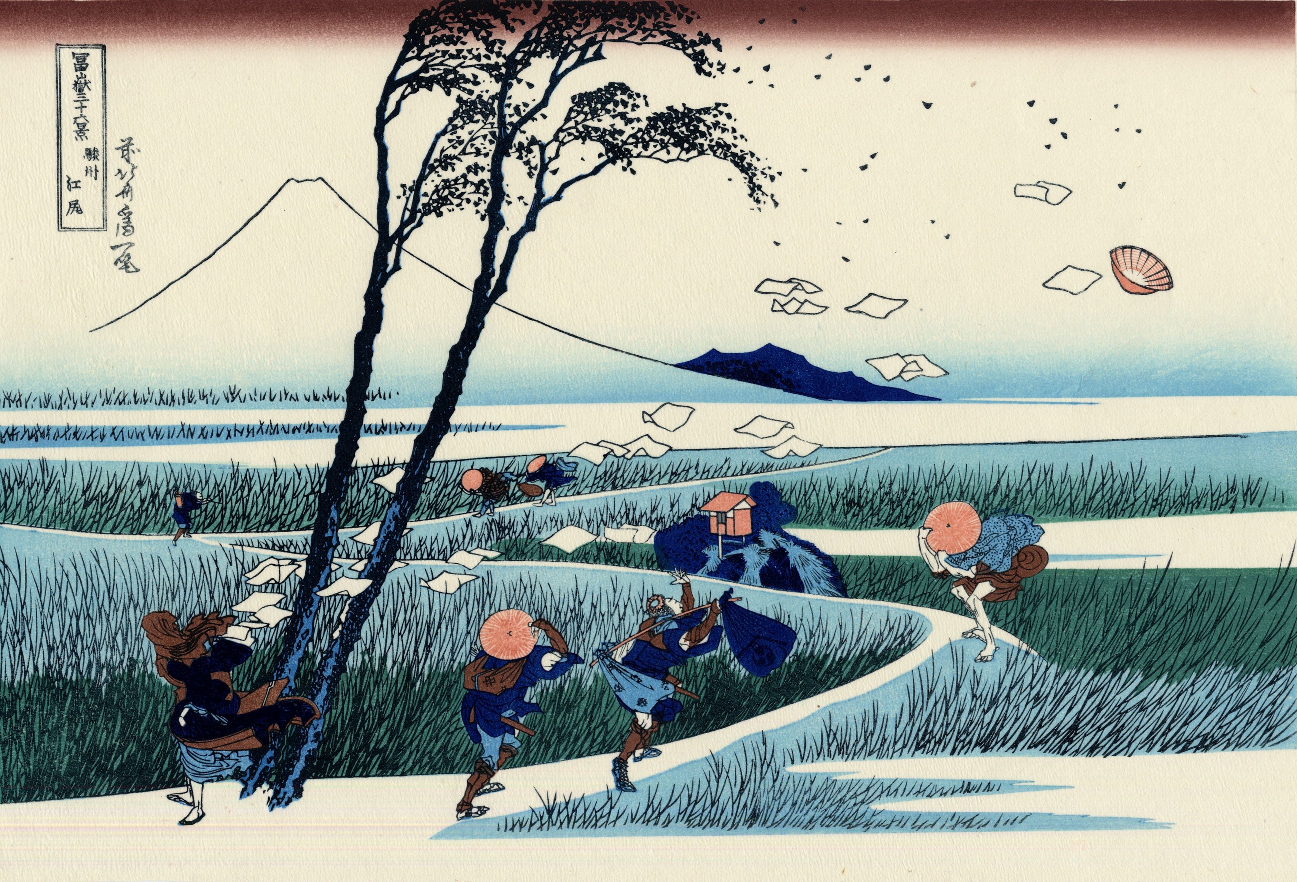 Part of the series Thirty-six Views of Mount Fuji, no. 35.